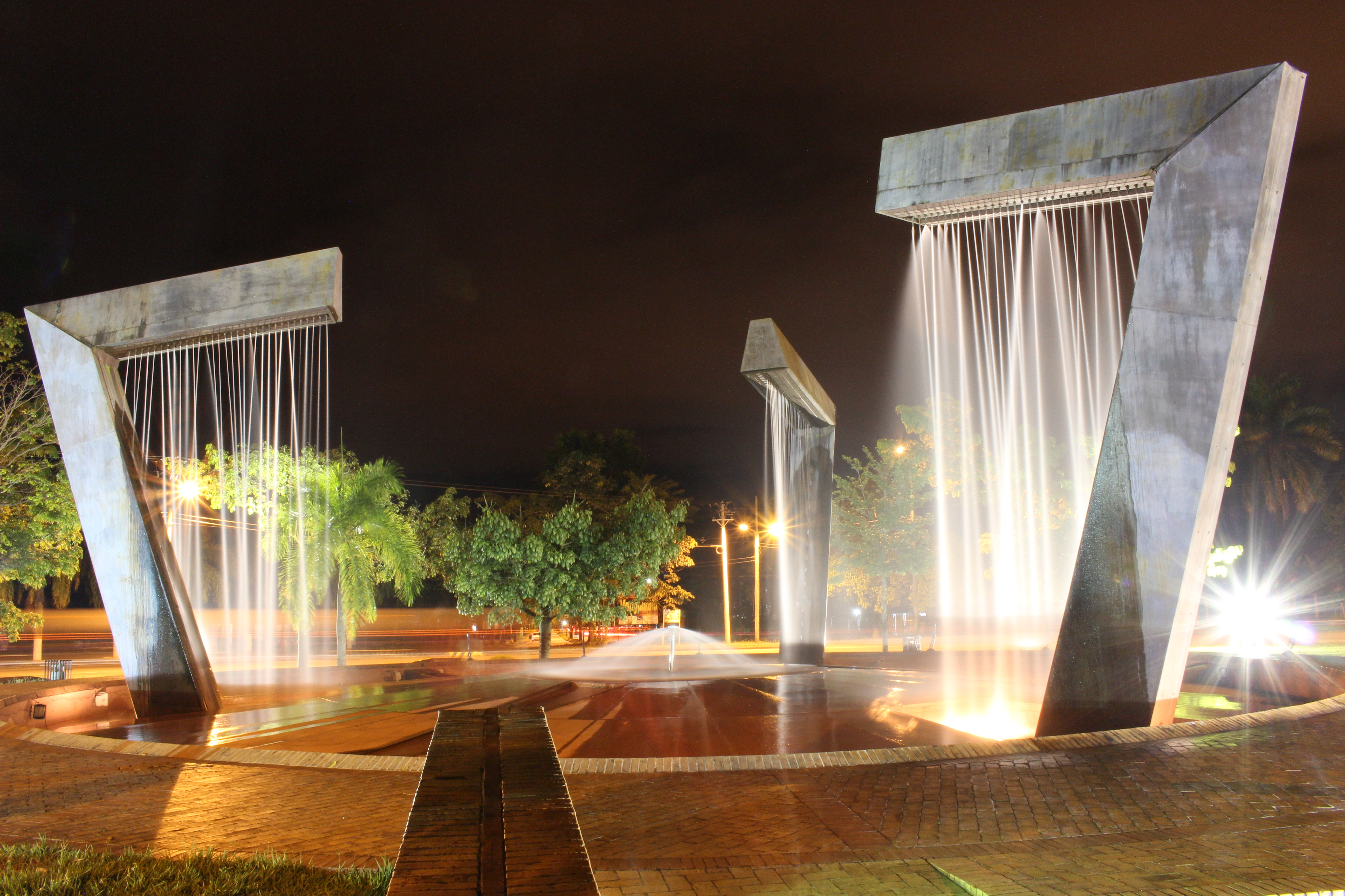 Harp fountain in Villavicencio, Meta, Colombia